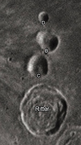 Ritter lunar crater as seen from Earth with satellite craters labeled